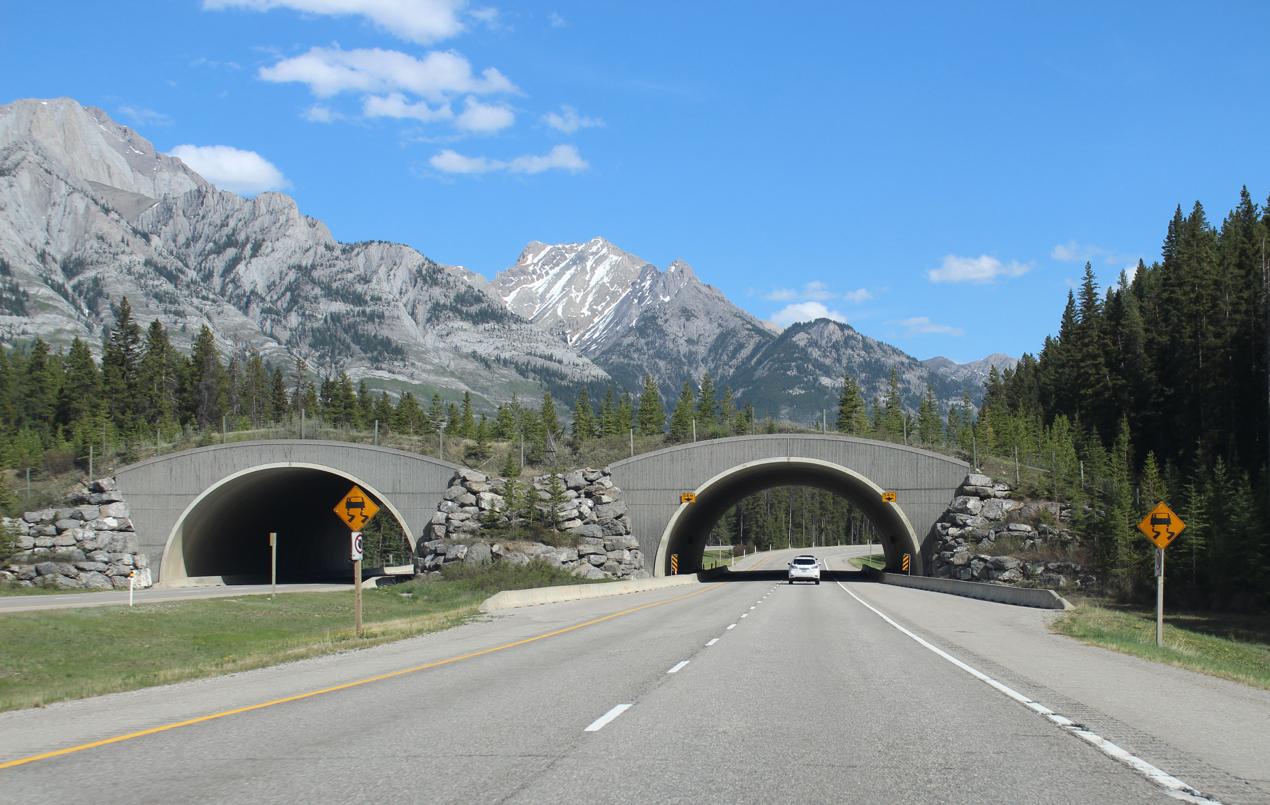 A wildlife crossing on the Trans-Canada Highway (Alberta Highway 1) heading eastbound in Banff National Park. Photographed by user Coolcaesar on May 26, 2018.